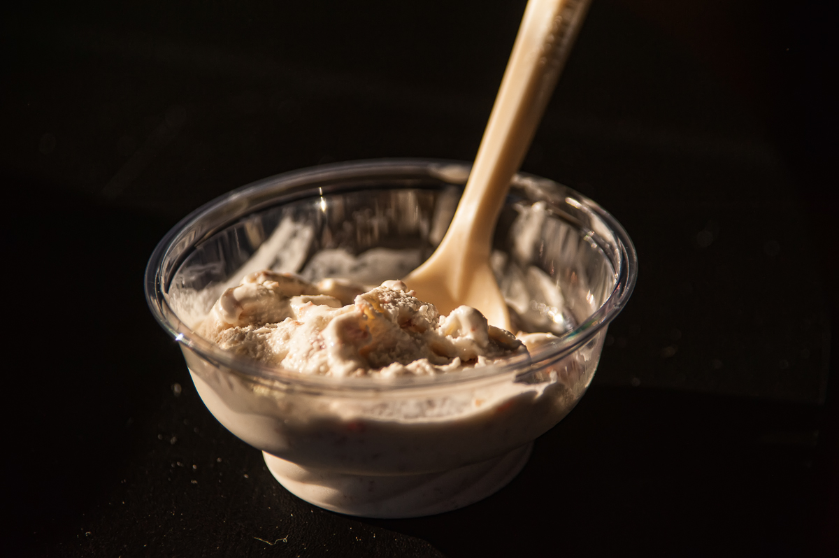 A bowl of maple-bacon ice cream offered for free by an Orcutt, California ice cream vendor in celebration of Ice Cream for Breakfast Day